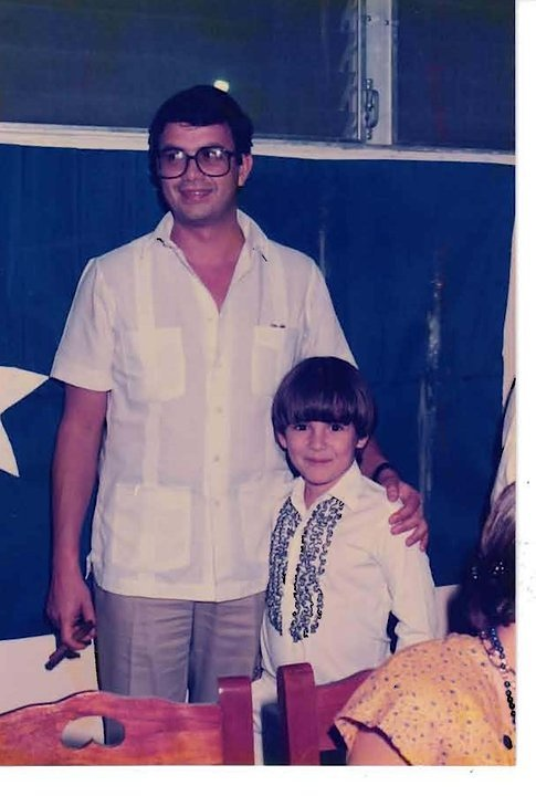 This is a picture from 1985 Campaign from Rafael Leonardo Callejas with Jose Maria Deras